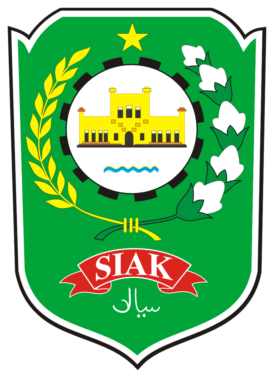 Lambang (Coat of Arms) of Kabupaten (Regency) Siak, Provinsi Riau (Riau Province; on Sumatra), Indonesia